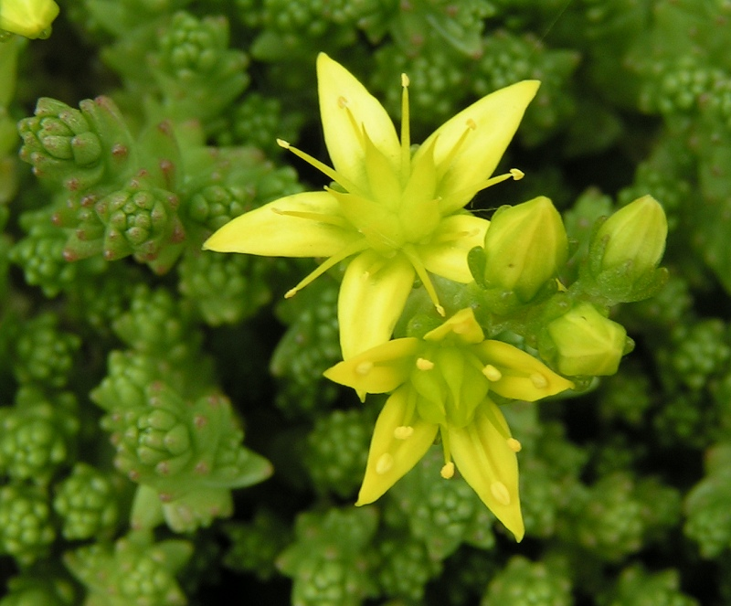 Biting stonecrop (Sedum acre). Photo by sannse, Great Holland Pits, Essex, 11 June 2004.